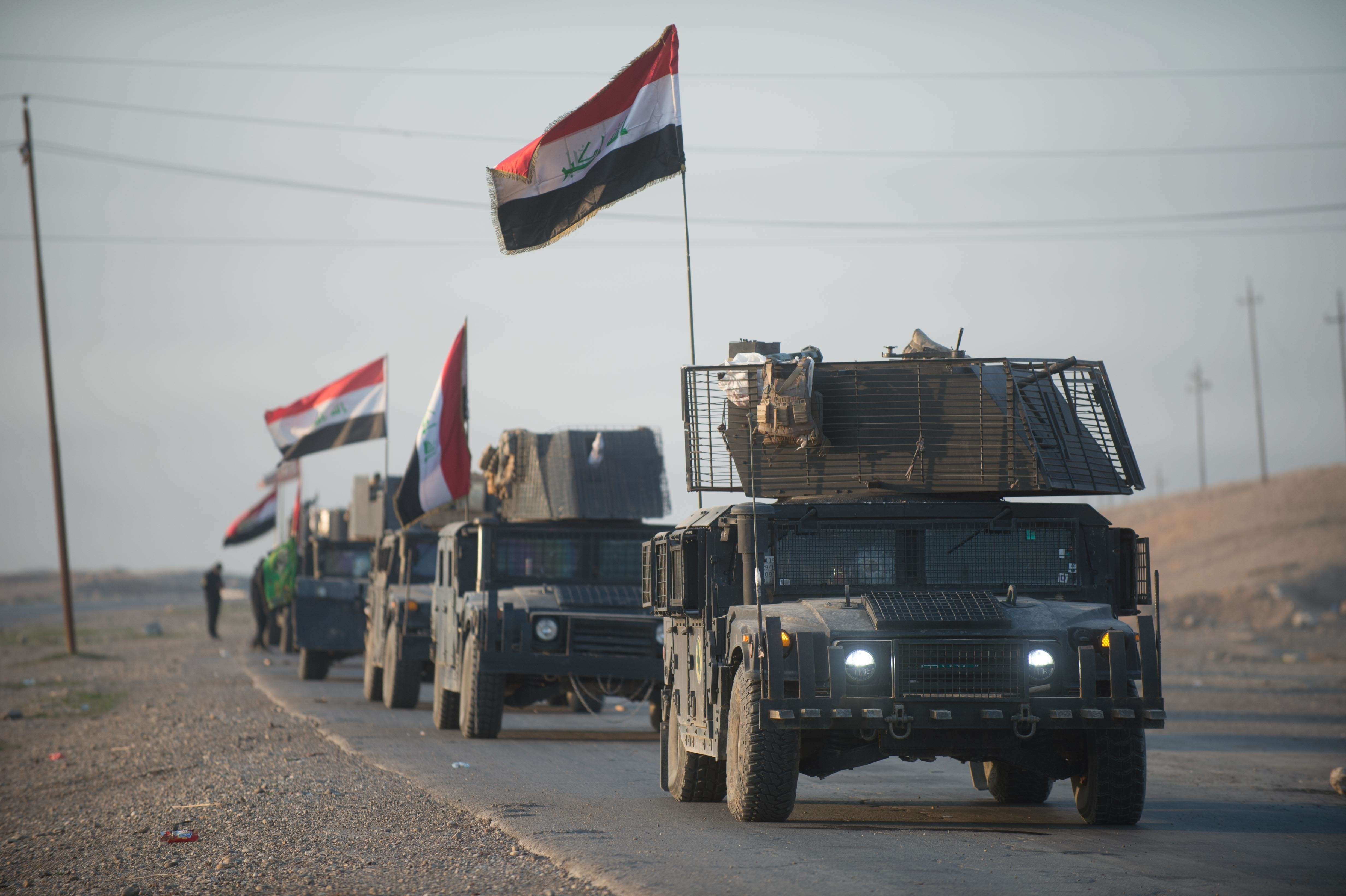 An Iraqi Counter Terrorism Service convoy moves towards Mosul, Iraq, Feb. 23, 2017. The breadth and diversity of partners supporting the Coalition demonstrate the global and unified nature of the endeavor to defeat ISIS in Iraq and Syria.